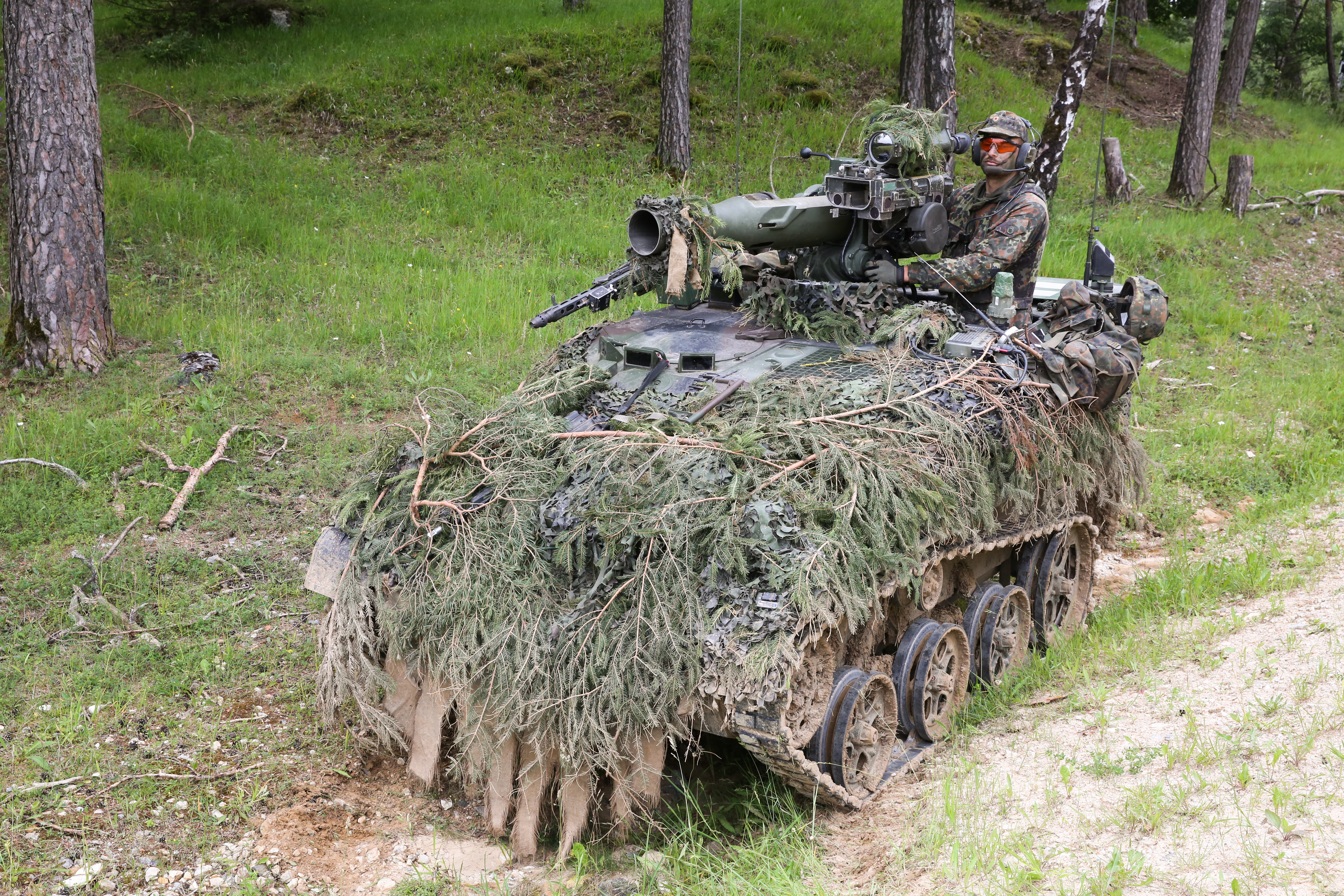 German Bundeswehr soldiers of 4th Paratrooper Company, 31st Paratrooper Regiment, provide security while conducting a mounted patrol during Swift Response 16 training exercise at the Hohenfels Training Area, a part of the Joint Multinational Readiness Center, in Hohenfels, Germany, Jun. 21, 2016. Exercise Swift Response is one of the premier military crisis response training events for multi-national airborne forces in the world. The exercise is designed to enhance the readiness of the combat core of the U.S. Global Response Force – currently the 82nd Airborne Division’s 1st Brigade Combat Team – to conduct rapid-response, joint-forcible entry and follow-on operations alongside Allied high-readiness forces in Europe. Swift Response 16 includes more than 5,000 Soldiers and Airmen from Belgium, France, Germany, Great Britain, Italy, the Netherlands, Poland, Portugal, Spain and the United States and takes place in Poland and Germany, May 27-June 26, 2016.